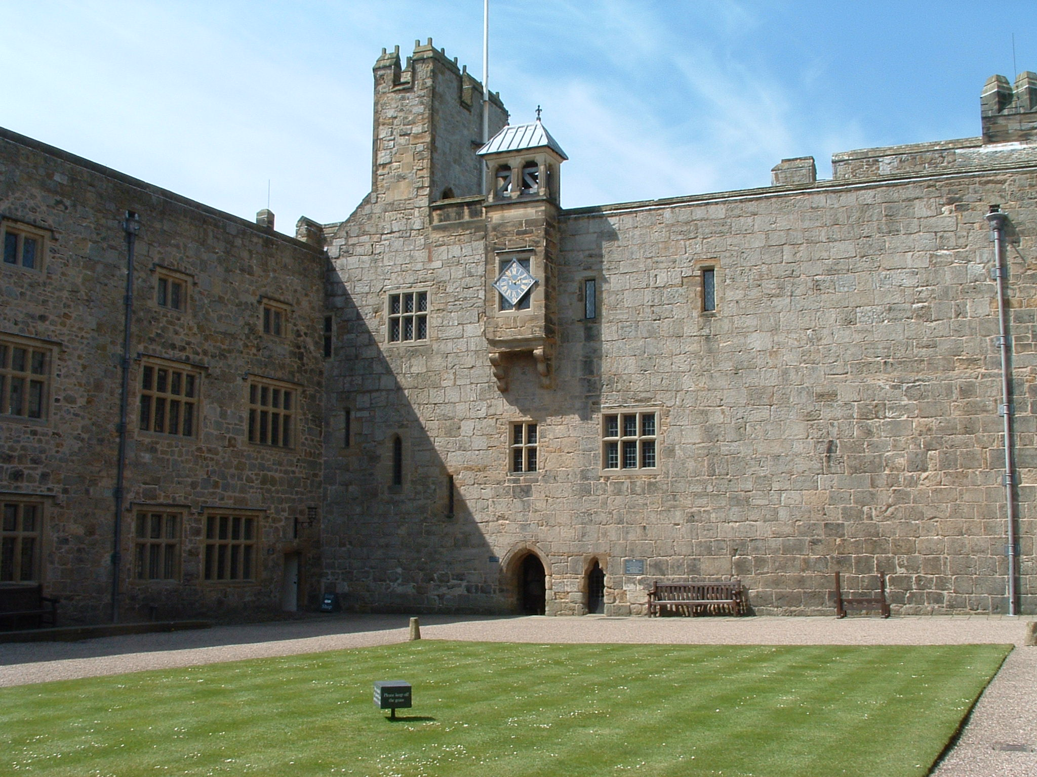 The courtyard of Castle Chirk Photo made by uploader, Akke.